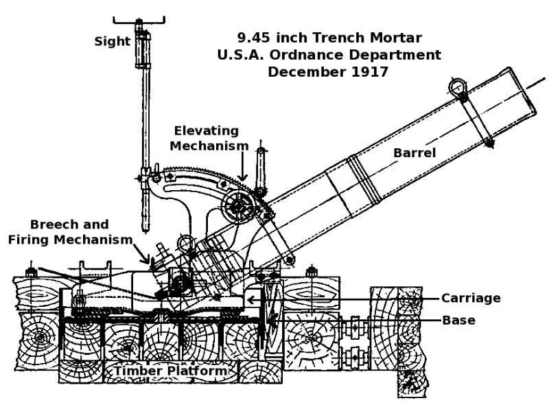 Right side elevation of French 240 mm (9.45 inch) Trench Mortar as adopted by the US Army, World War I. This US diagram appears to be a reproduction of original French documentation.